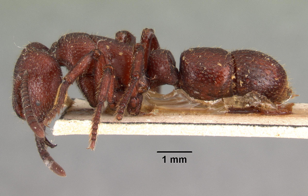 Profile view of ant Psalidomyrmex foveolatus specimen casent0101471.